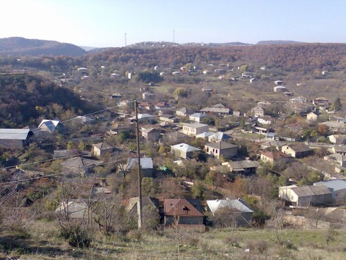 my photoarchives